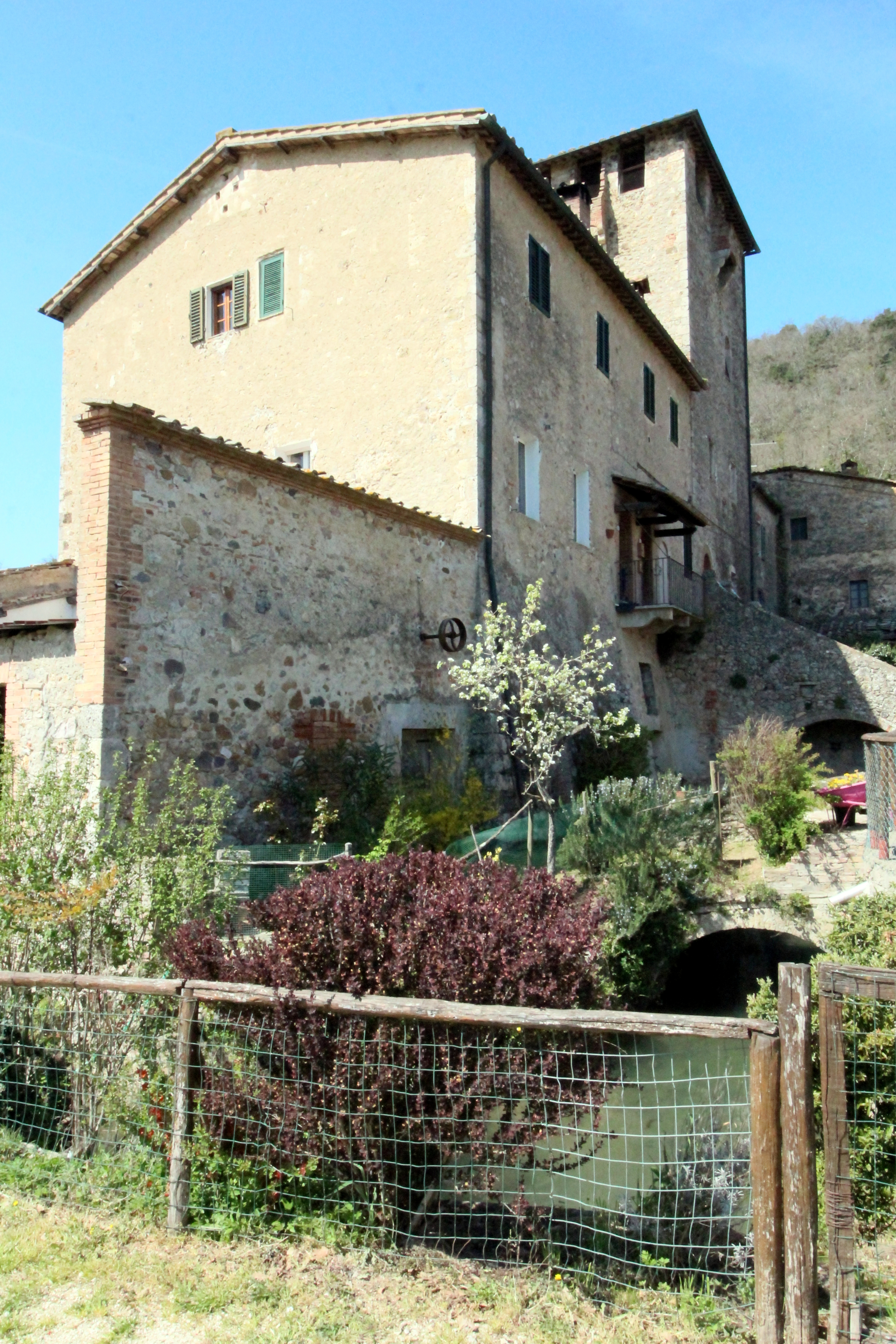 Ancient Watermill Molino del Pero, Brenna, hamlet of Sovicille, Province of Siena, Tuscany, Italy